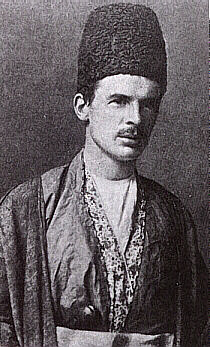 Cambridge scholar E.G. Browne, attired in Persian dress.